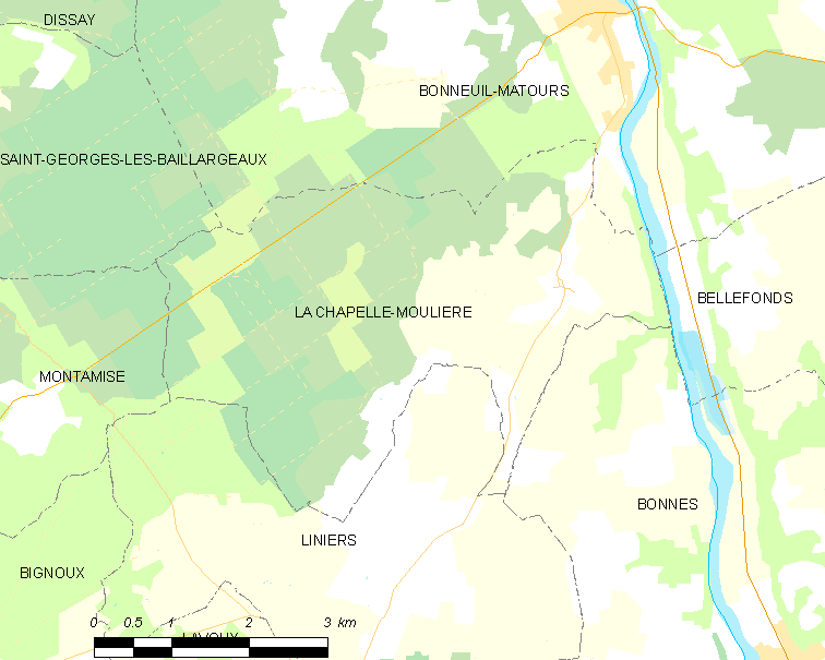 Map of French municipality La Chapelle-Moulière